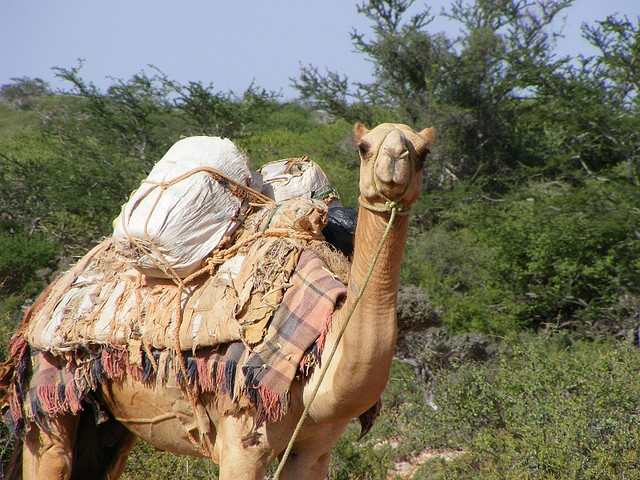 A camel pack animal transporting nomadic materials in Eyl, Puntland, Somalia.